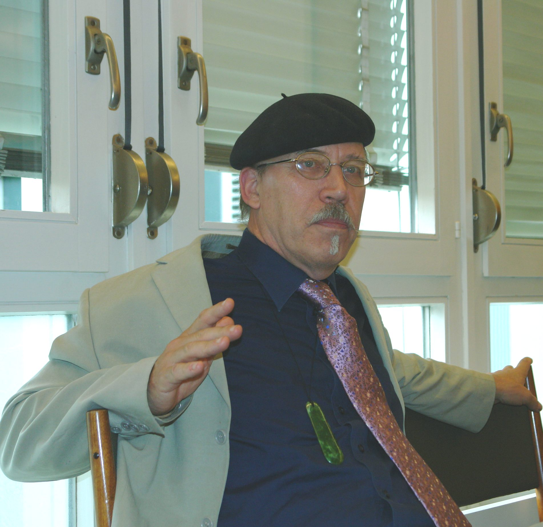 Christopher Busby at a conference about WHO on Chernobyl disaster consequences.